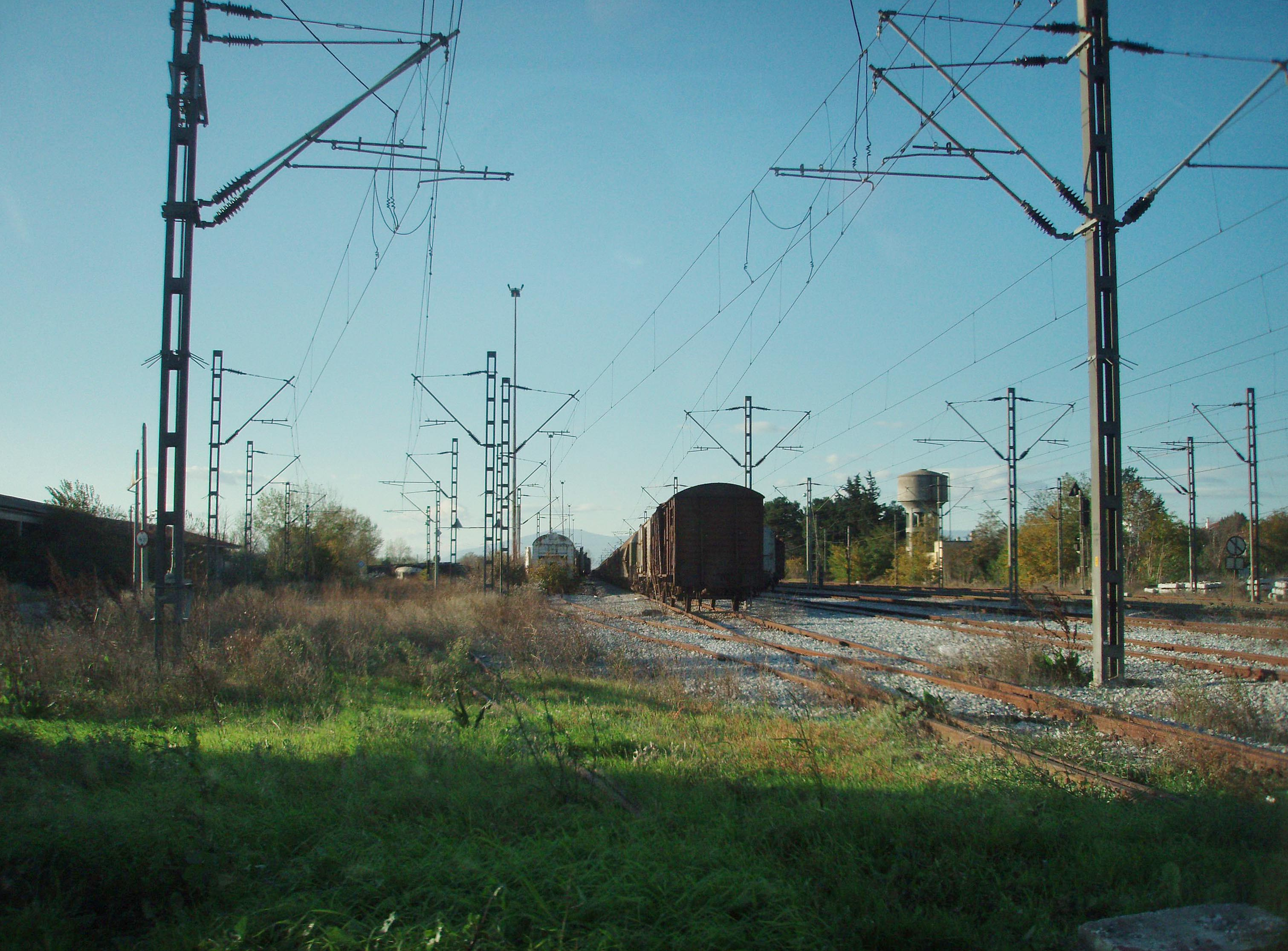 Thessaloniki-Idomeni electrified multi-track railway line seen from railway crossing at the village of Gefyra, Thessaloniki prefecture, Greece.